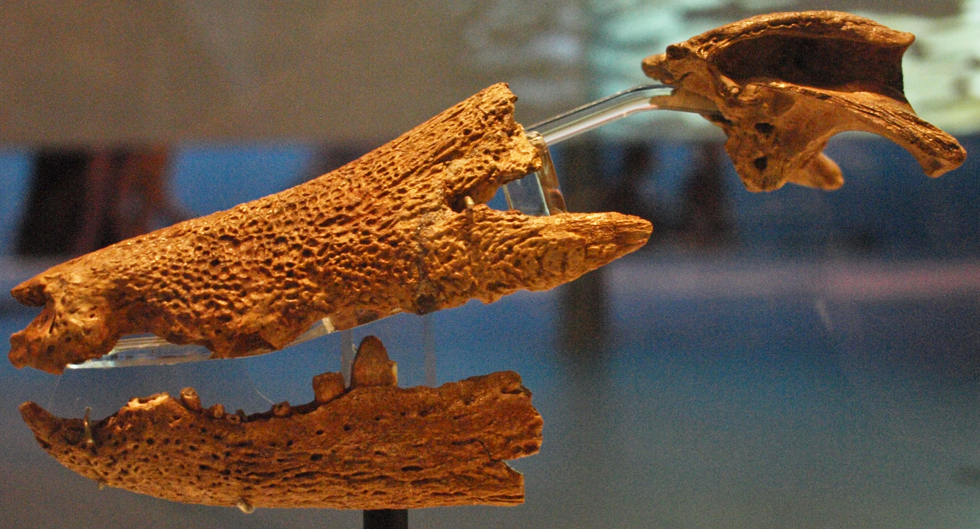 Hamadasuchus rebouli Skull on Display at the Royal Ontario Museum (ROM 52620)